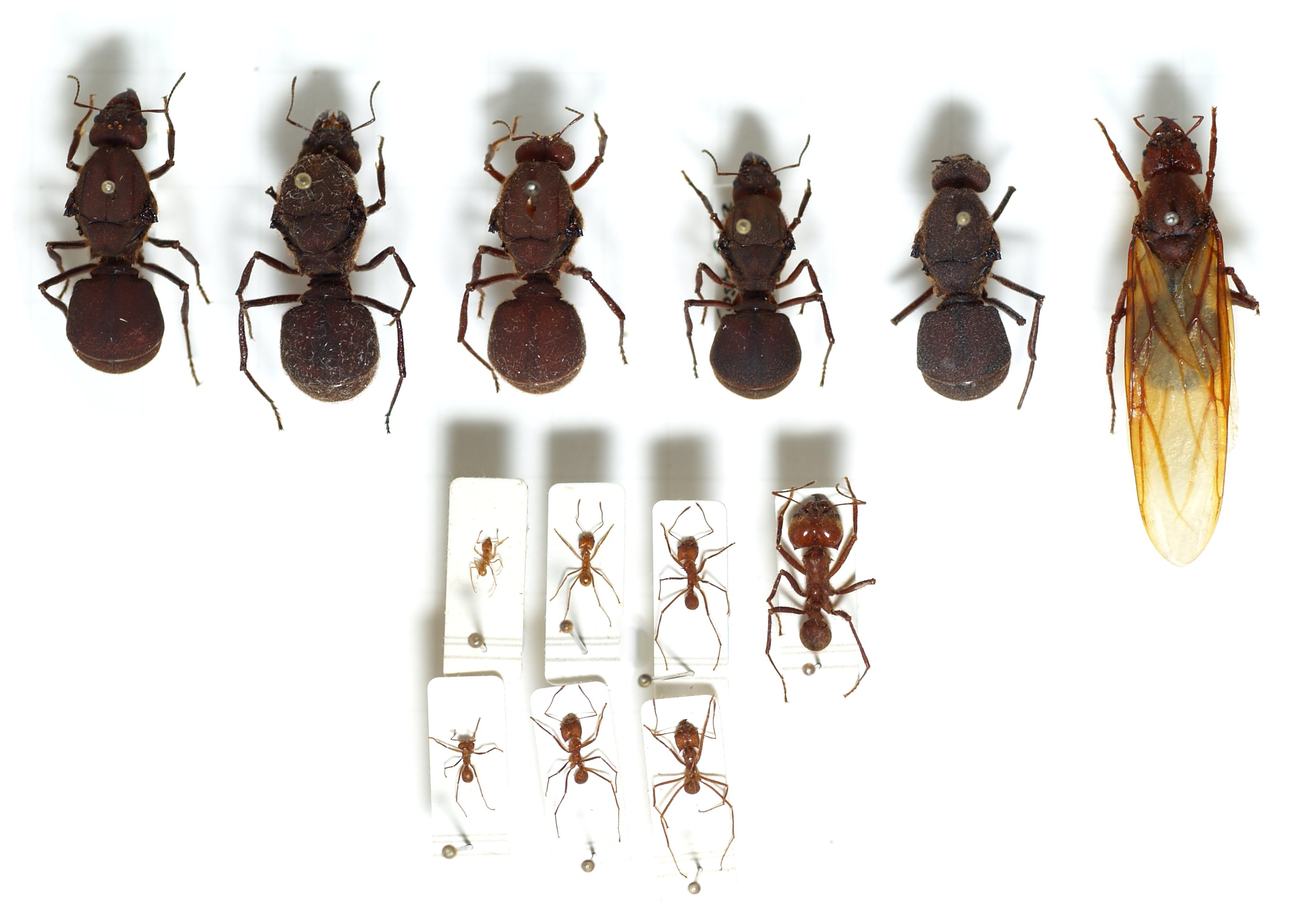 Atta cephalotes. Big ones at top are queens (rightmost: winged form), others are workers and soldiers.